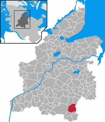 Locator maps of municipalities in Schleswig-Holstein - District Rendsburg-Eckernförde